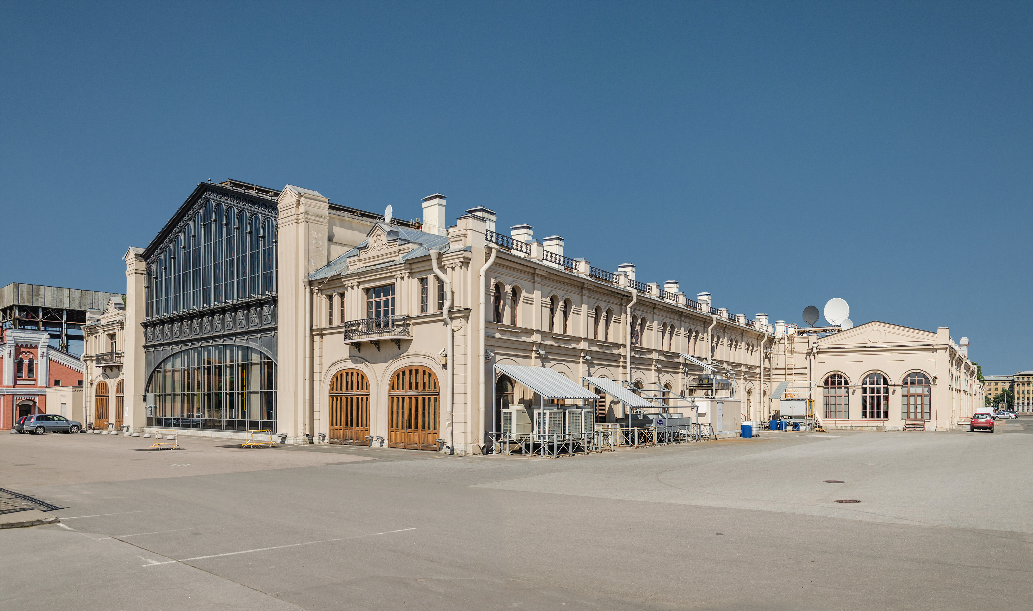 The Varshavsky Rail Terminal in Saint Petersburg